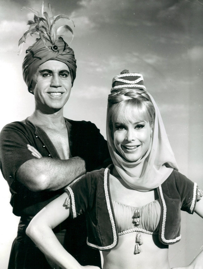 Publicity photo from I Dream of Jeannie. Pictured are the Blue Djinn (Michael Ansara) and Jeannie (Barbara Eden).